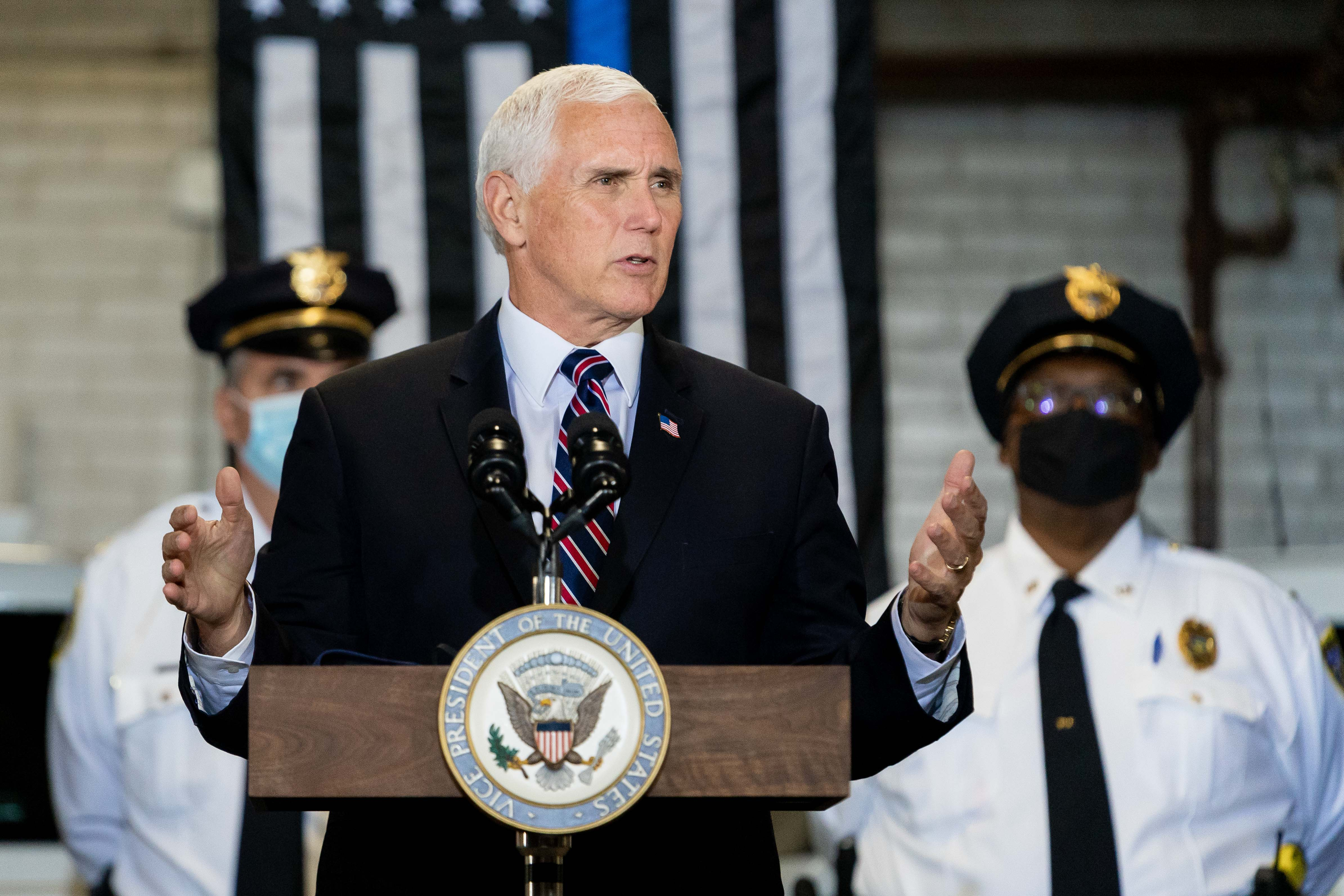 Vice President Mike Pence delivers remarks to officers Thursday, June 25, 2020, at the Youngstown Police Department in Youngstown, Ohio. (Official White House Photo by D. Myles Cullen)